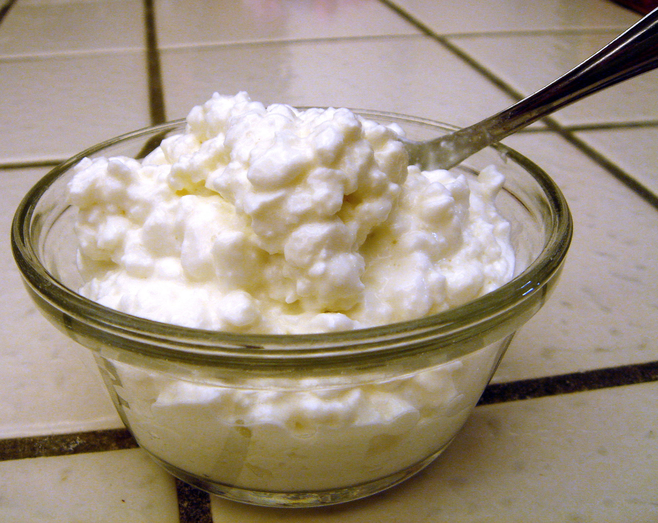 A bowl of cottage cheese.